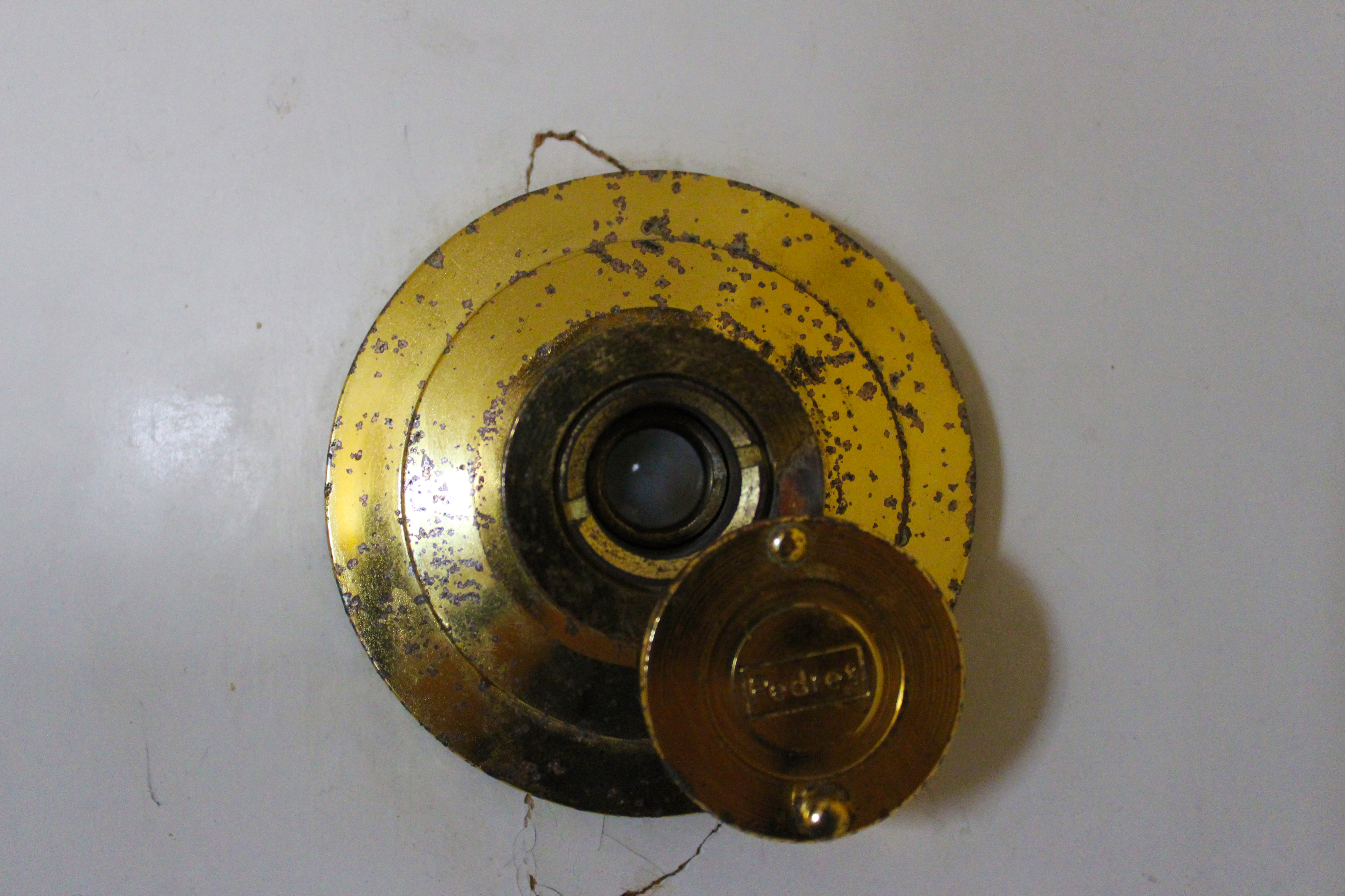 Old peephole in Alexandria.